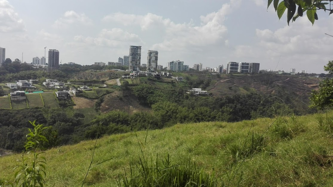 North city view from Del Río High